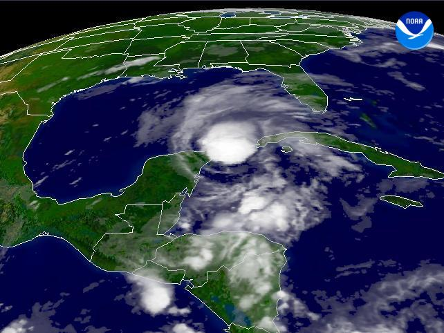 This image shows Tropical Storm Claudette brushing the northeastern Yucatan Peninsula in July of 2003.